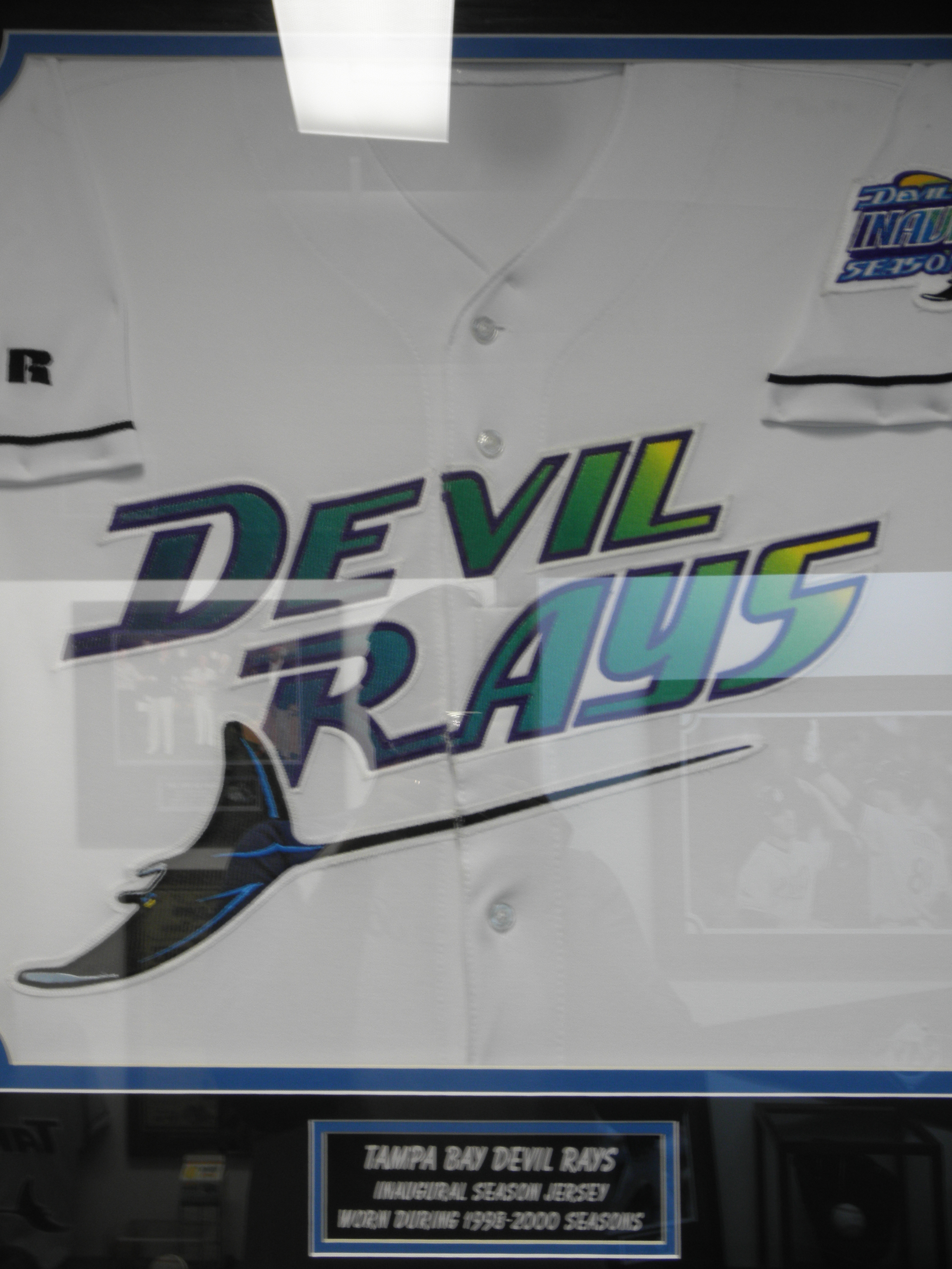 The original home uniforms of the Tampa Bay Devil Rays, circa 1998.